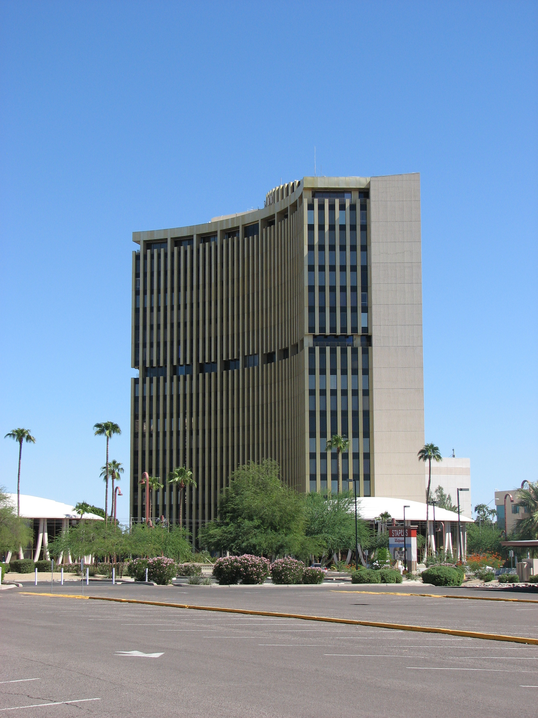 Phoenix Financial Center in Phoenix, Arizona, on September 29, 2013.